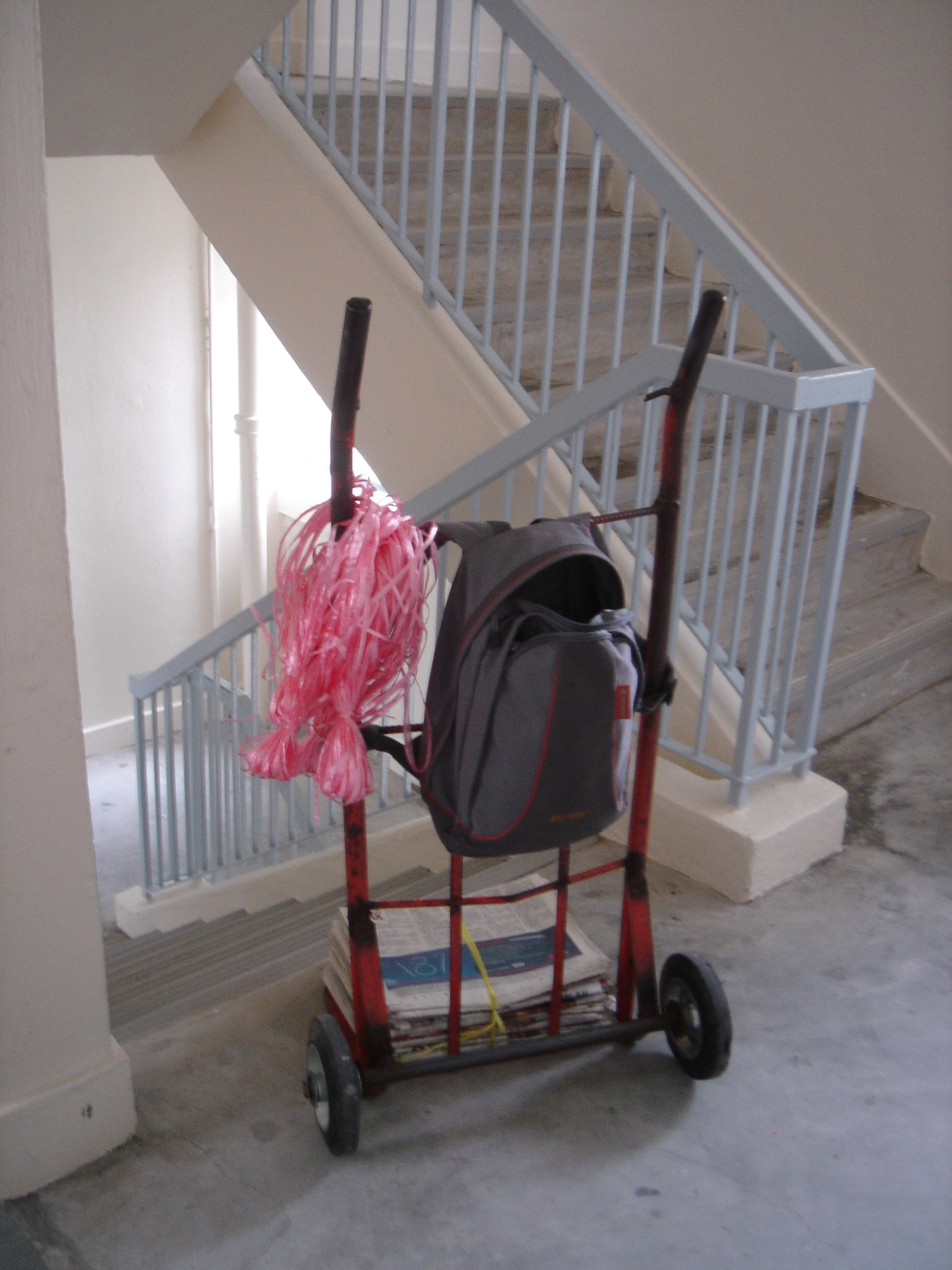 A karang guni cart. (The person declined to have a photo of him taken on the job, though.)